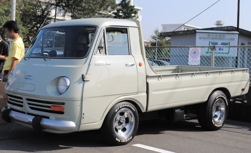 Nissan Homer T641, built from August 1968 until September 1972. The succeeding T20 has another engine and larger front turn signals.